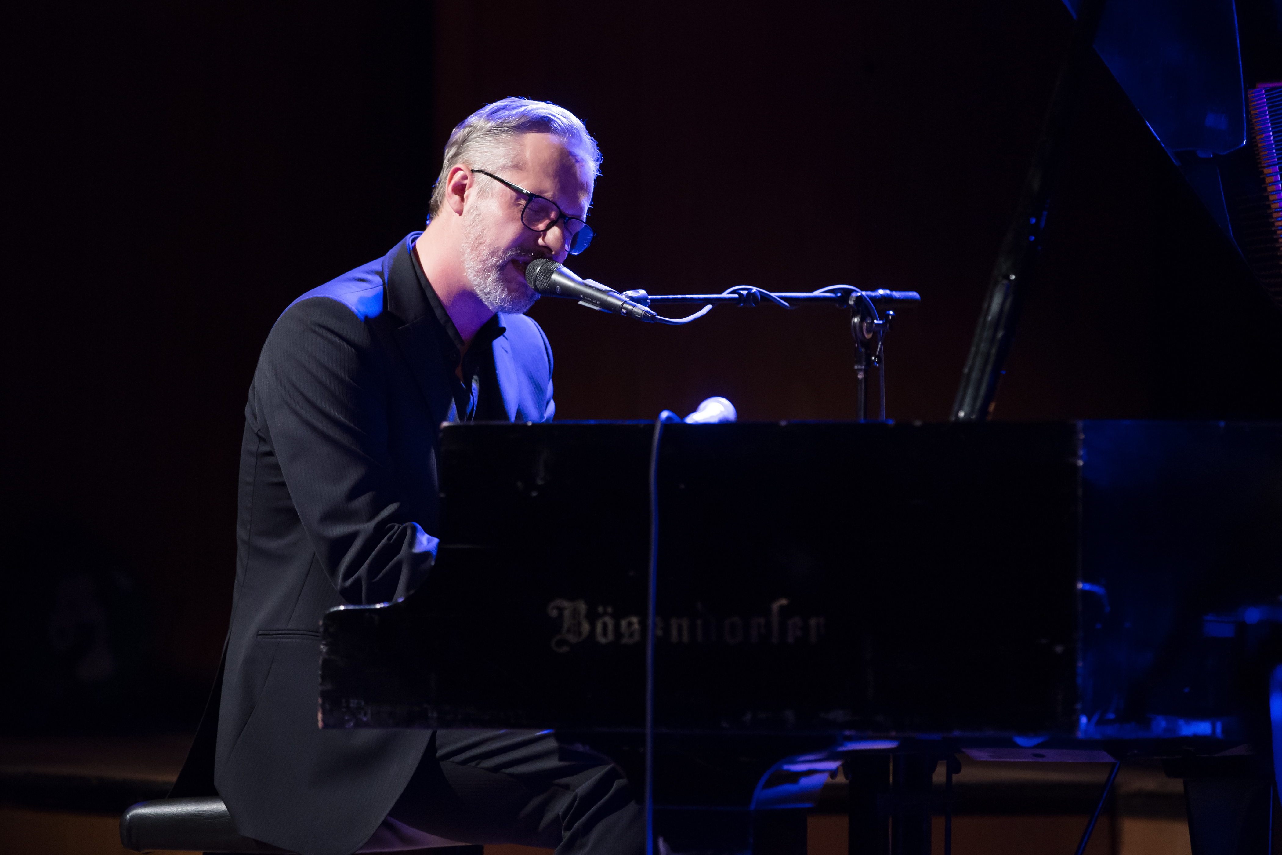 Axel Wolph, concert at the charity event An Evening for Licht ins Dunkel 2015 at Radiokulturhaus/Funkhaus Wien in Vienna, Austria.